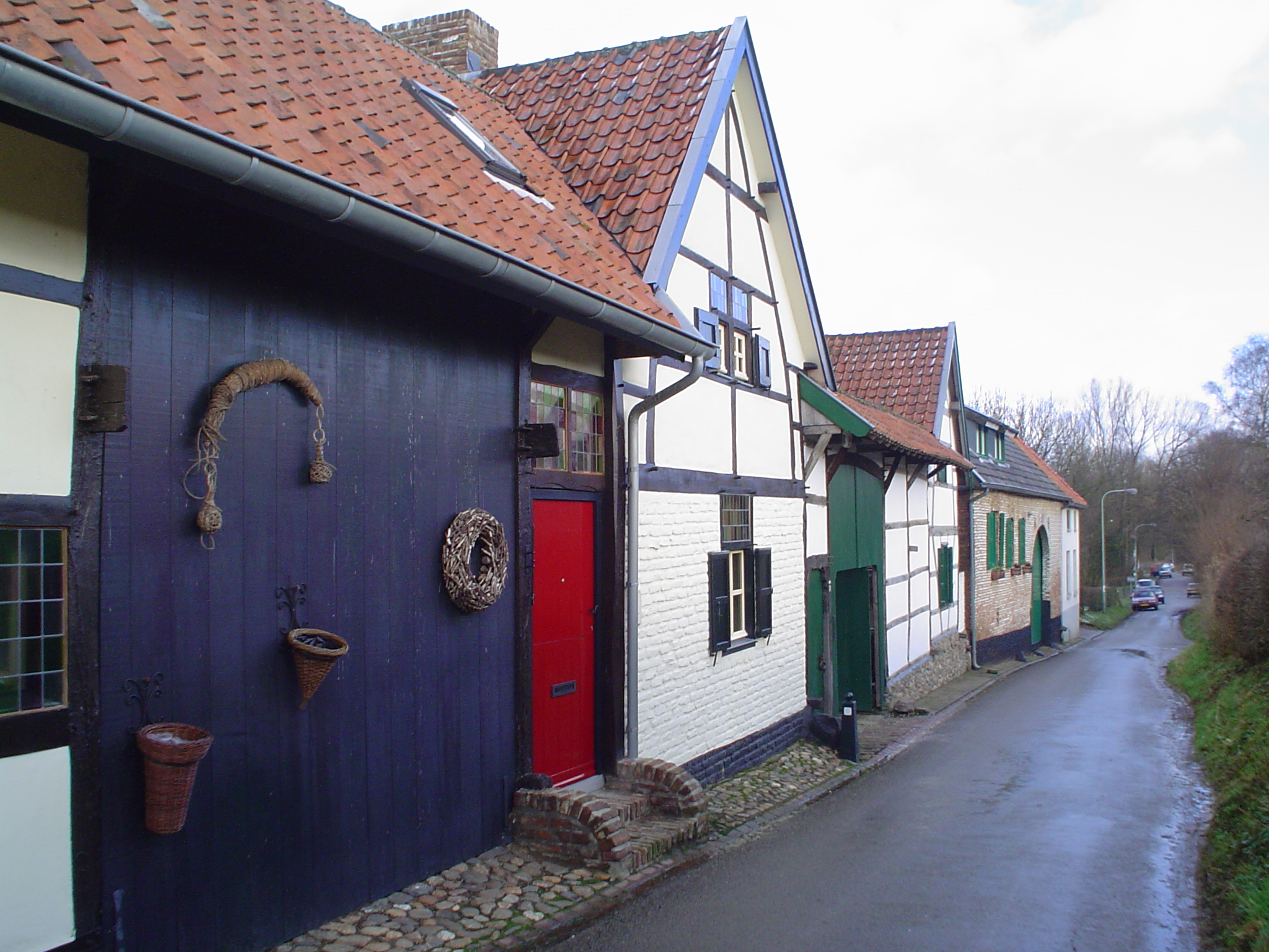 The Branterweg in the hamlet Brand, near Nuth